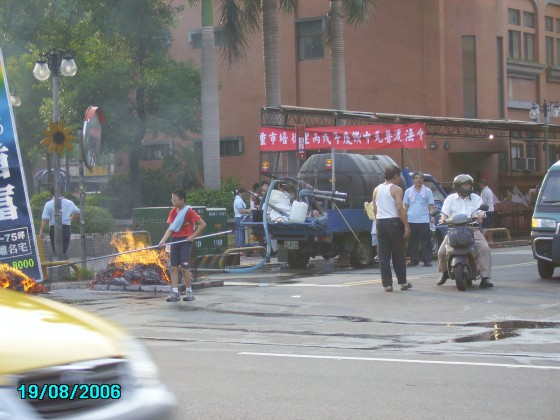 Temple in Taiwan zn:普渡